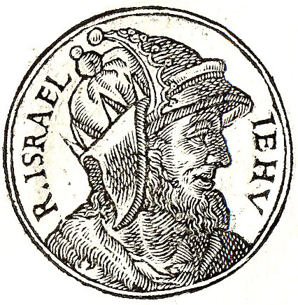 Jehu was king of Israel, the son of Jehoshaphat [1], and grandson of Nimshi.